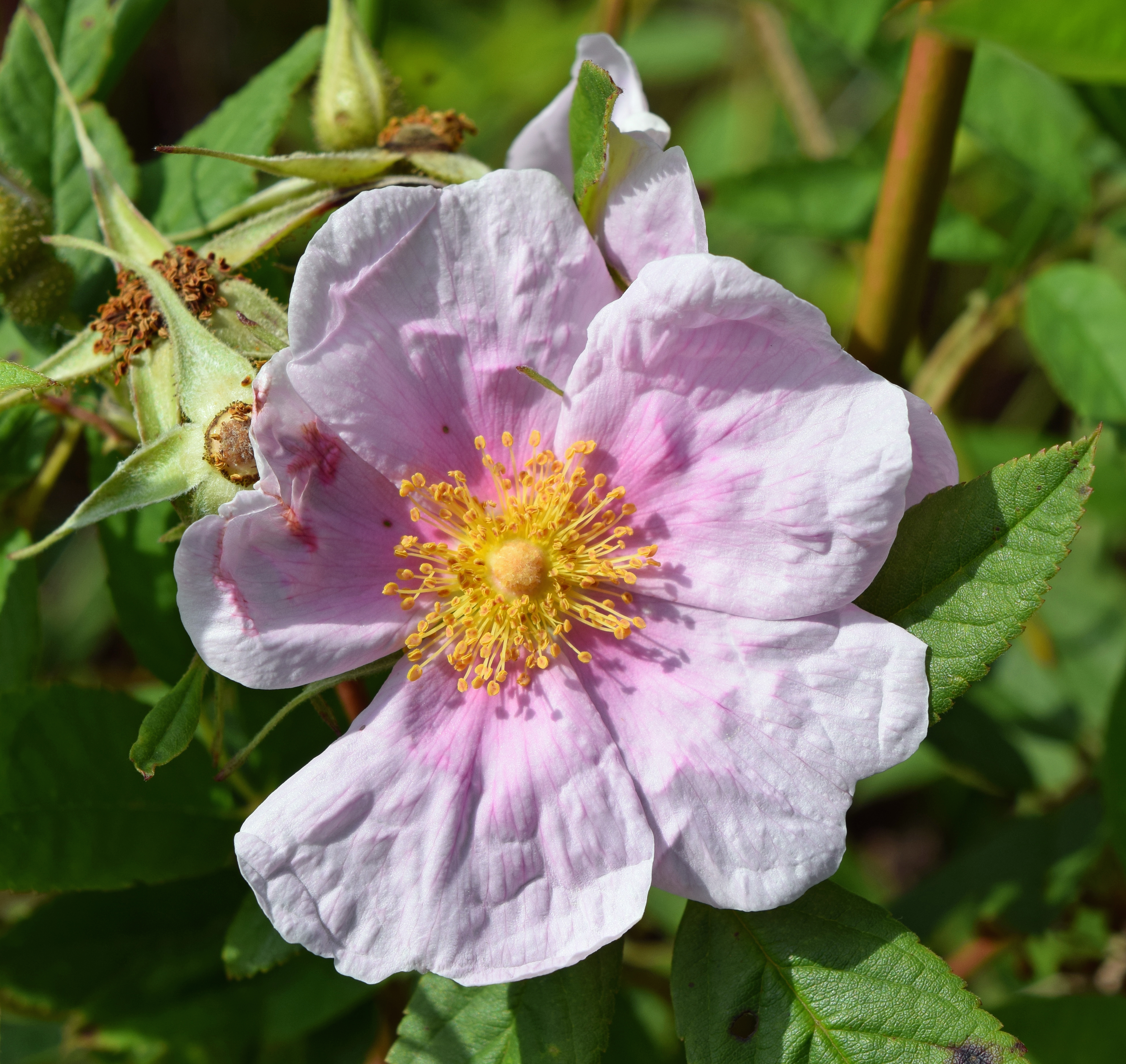 A Rosa palustris (swamp rose) flower at the University of Mississippi Field Station.